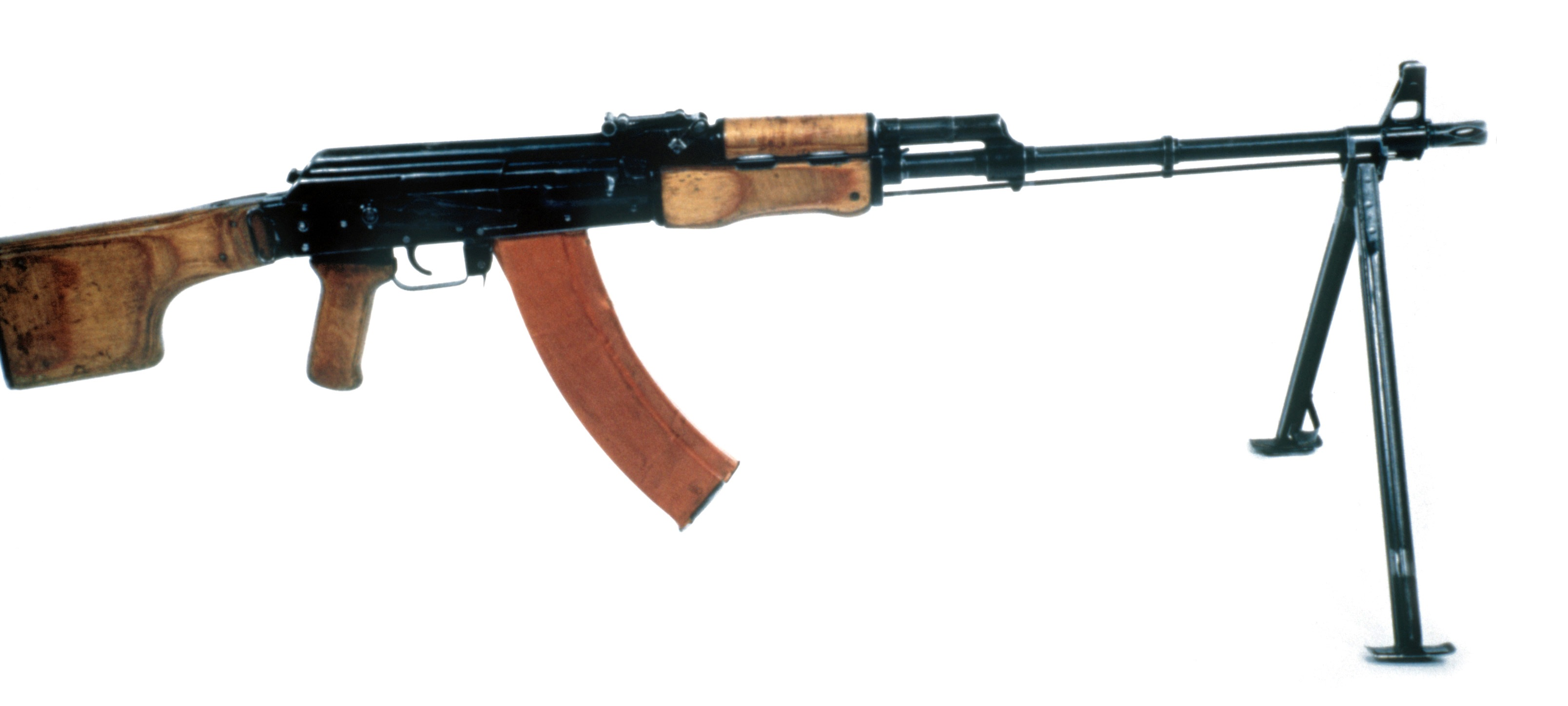 A right side of a Soviet 5.45 mm RPK-74 light machine gun with a 40-round box magazine. (Released to Public)